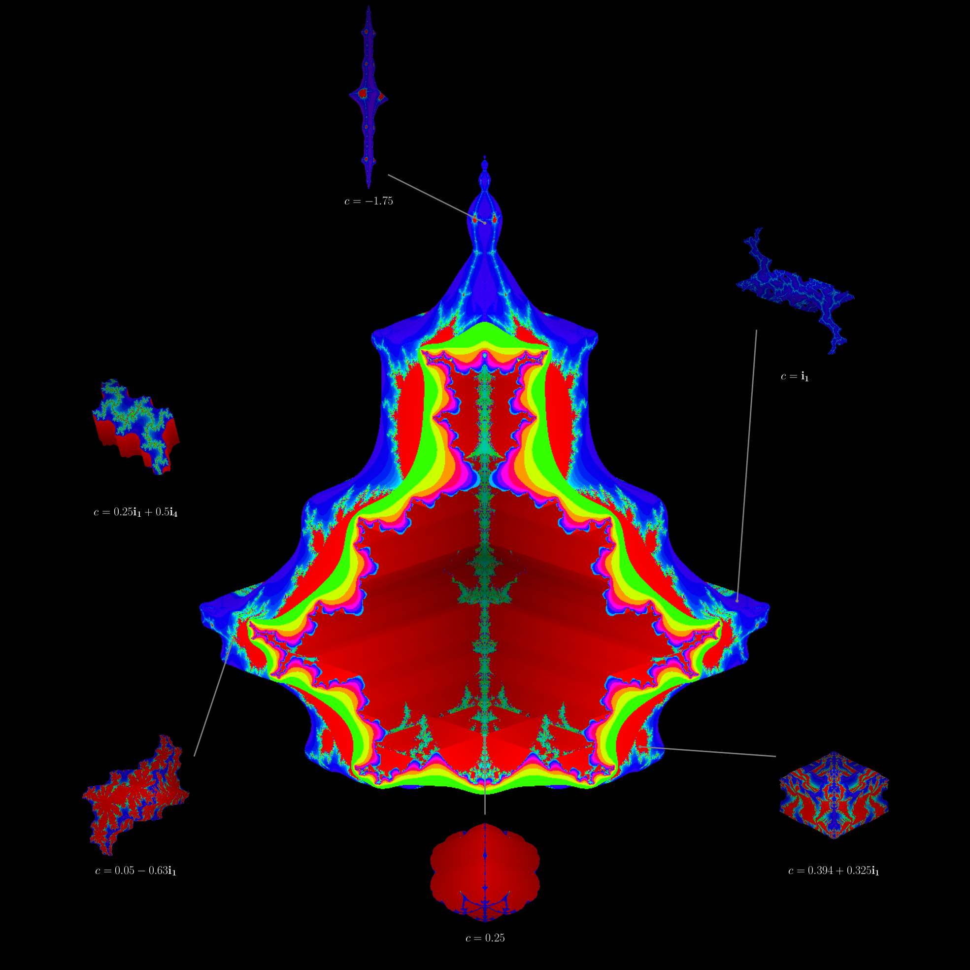 This is an illustration of the Tetrabrot set with its Julia sets